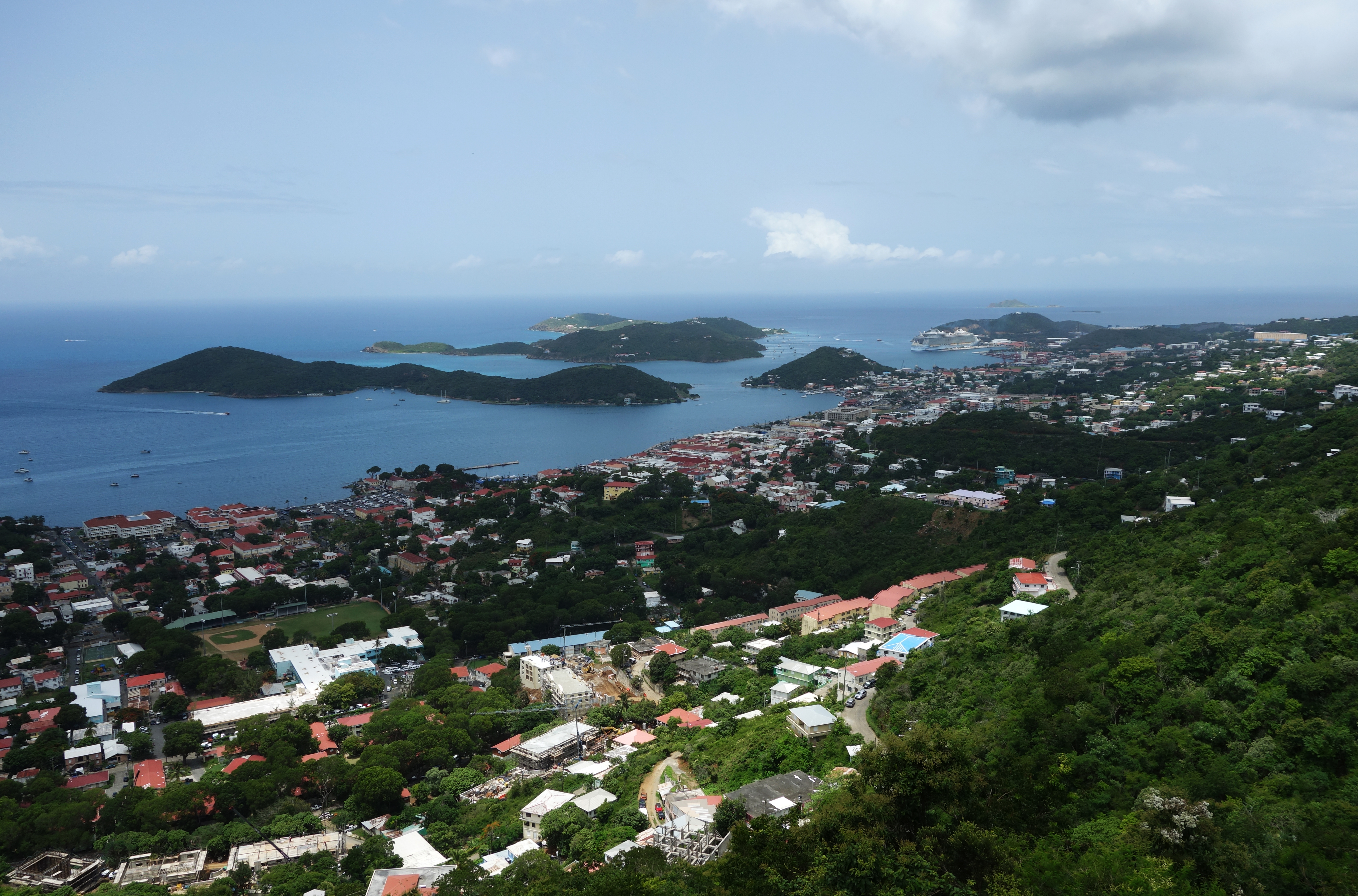 View of Charlotte Amalie on St. Thomas in the US Virgin Islands